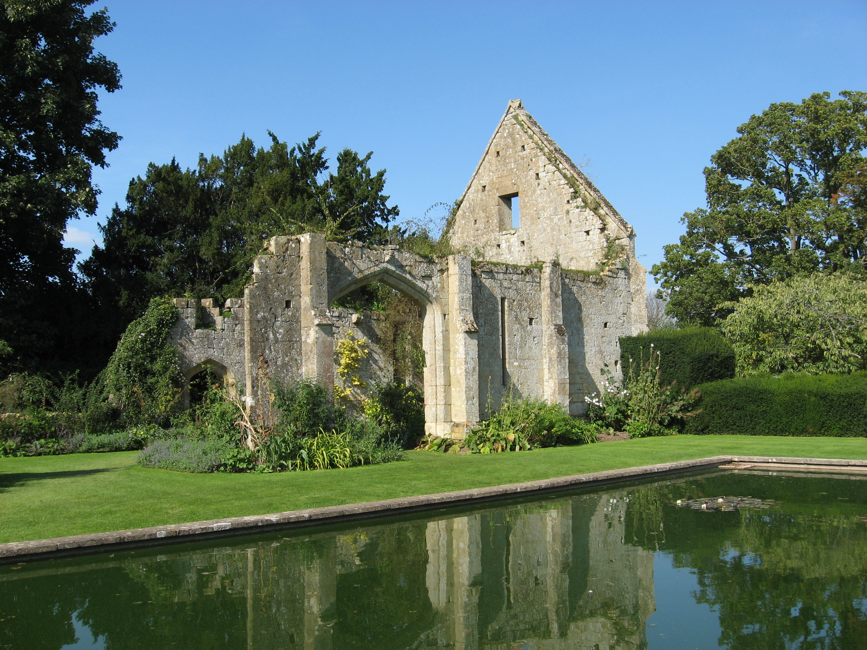 Tithe Barn Ruins, Sudeley Castle.